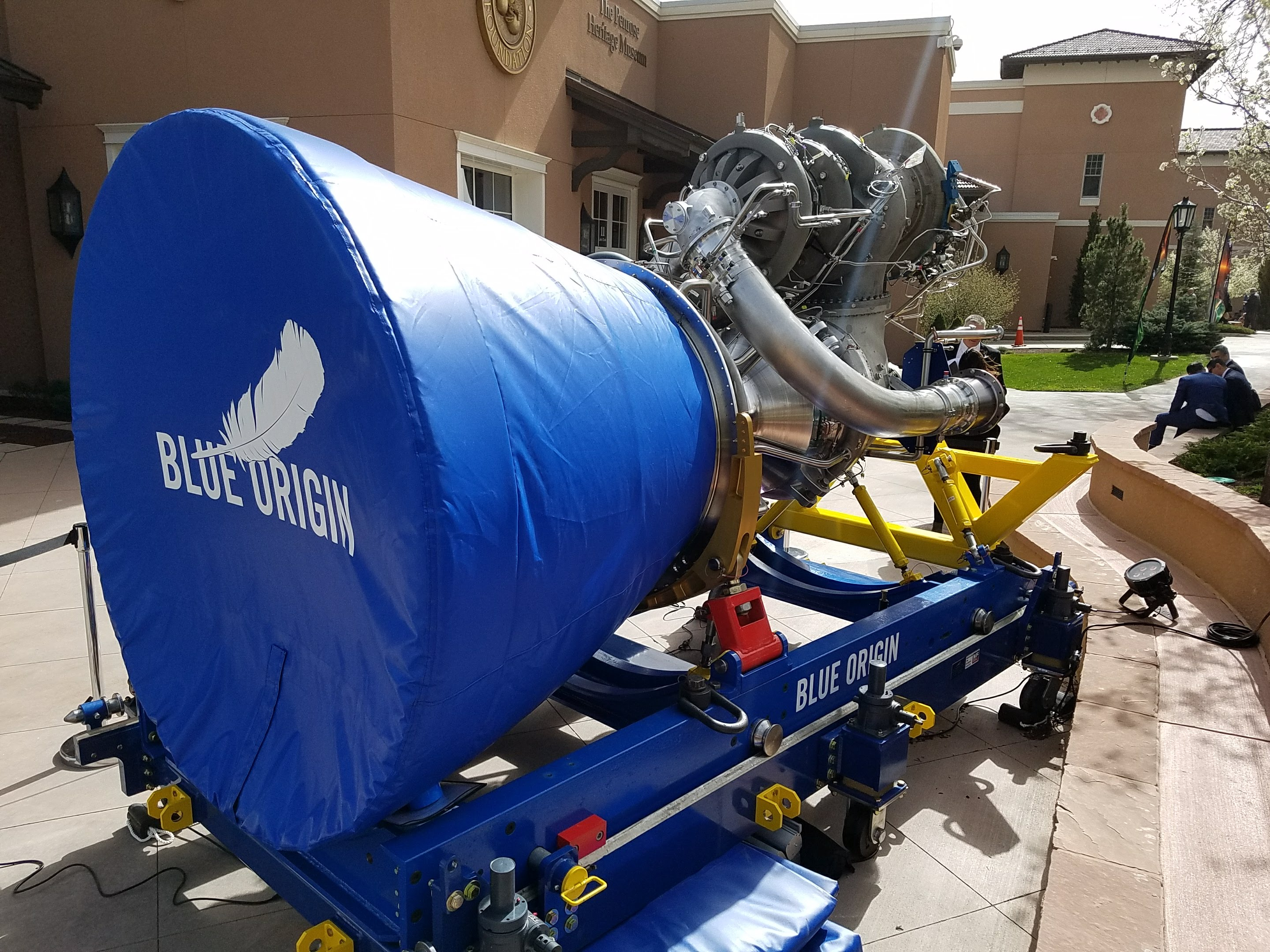 The BE-4, originally serial number 101, was manufactured in Kent, Washington during October 2017. It was the first BE-4 engine to be hotfire tested, on 18 Oct 2017. It has subsequently been hotfire tested, disassembled, rebuilt and retested several times to its current iteration in this photo, noted as SN 103. Portions of this development engine have gone through destructive disassembly and inspection. Part no. 004-150-0000-001